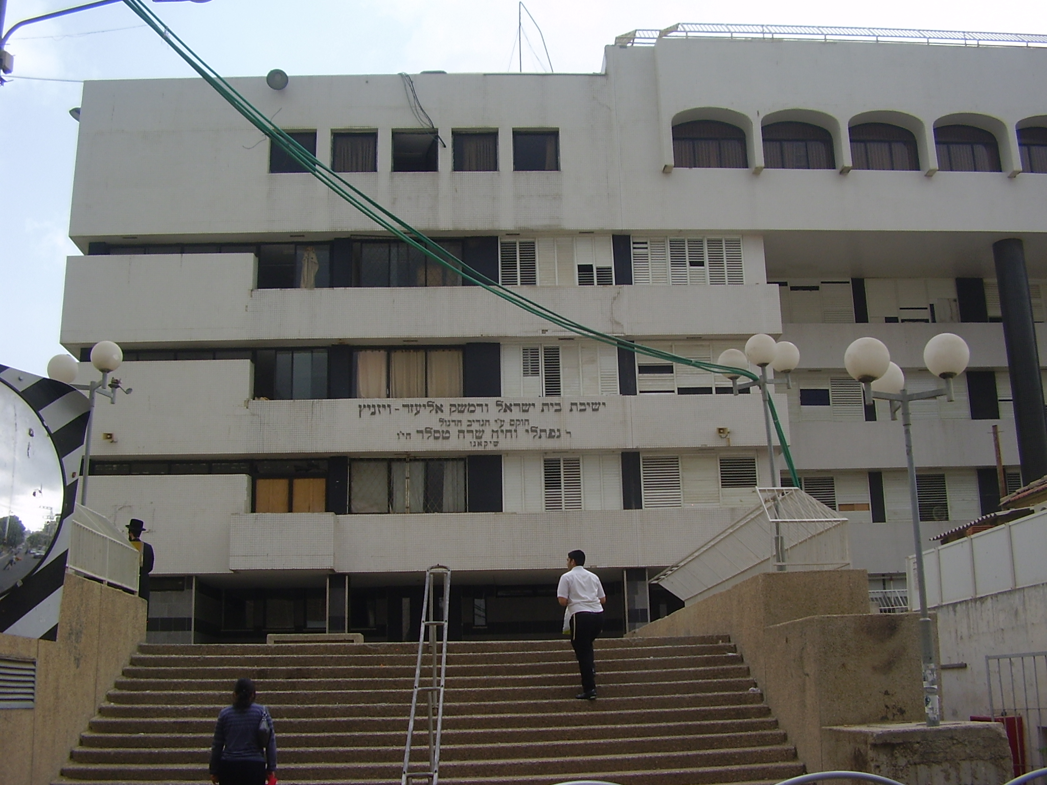 vizhnitz yeshiva in bnei brak ישיבת ויז'ניץ בבני ברק